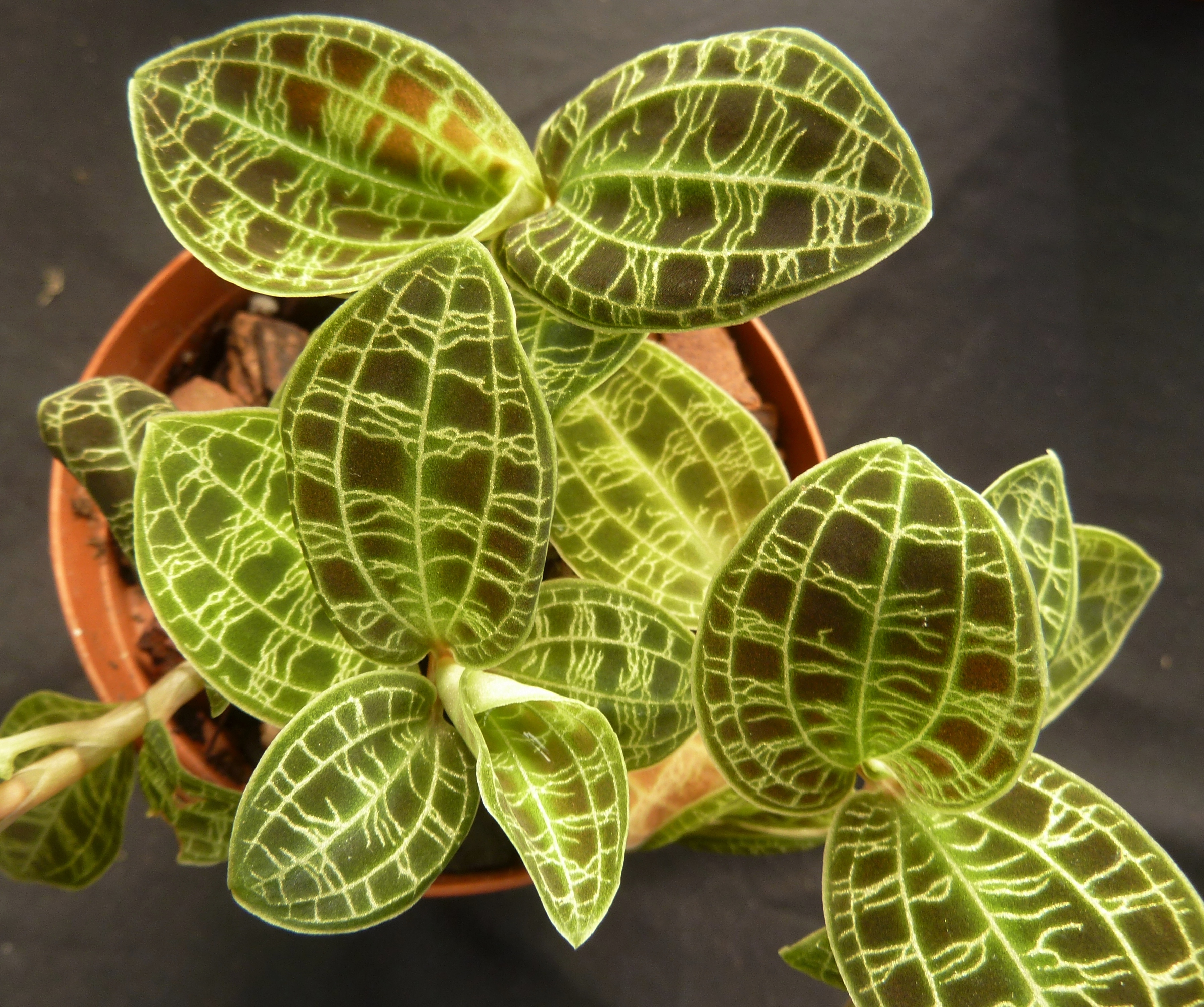 Jewel orchid at an orchid show in the Safari Garden Center in Pretoria